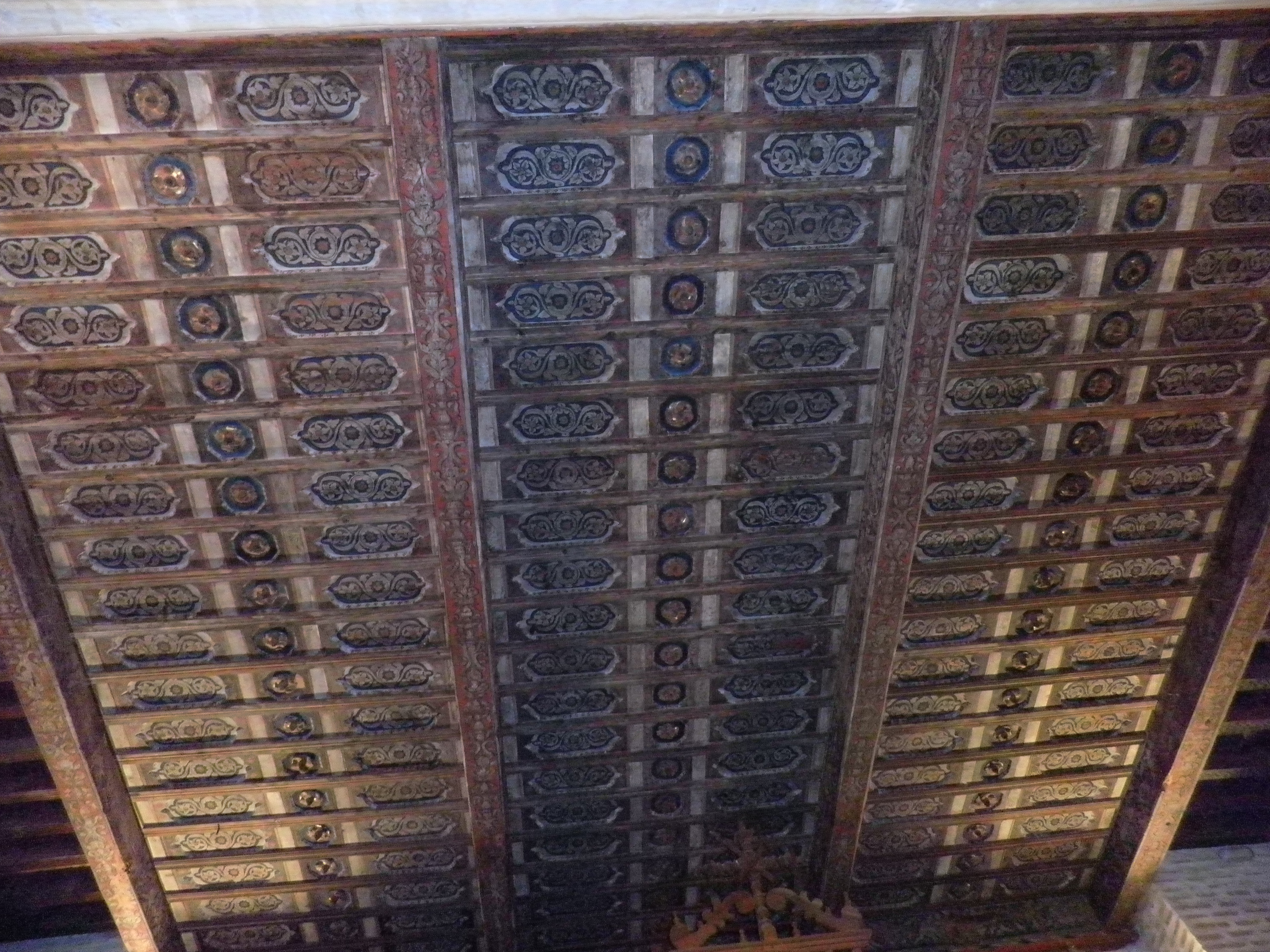 Coffered ceiling under choir of church of Santa María la Real de Nieva, Segovia province, Spain.